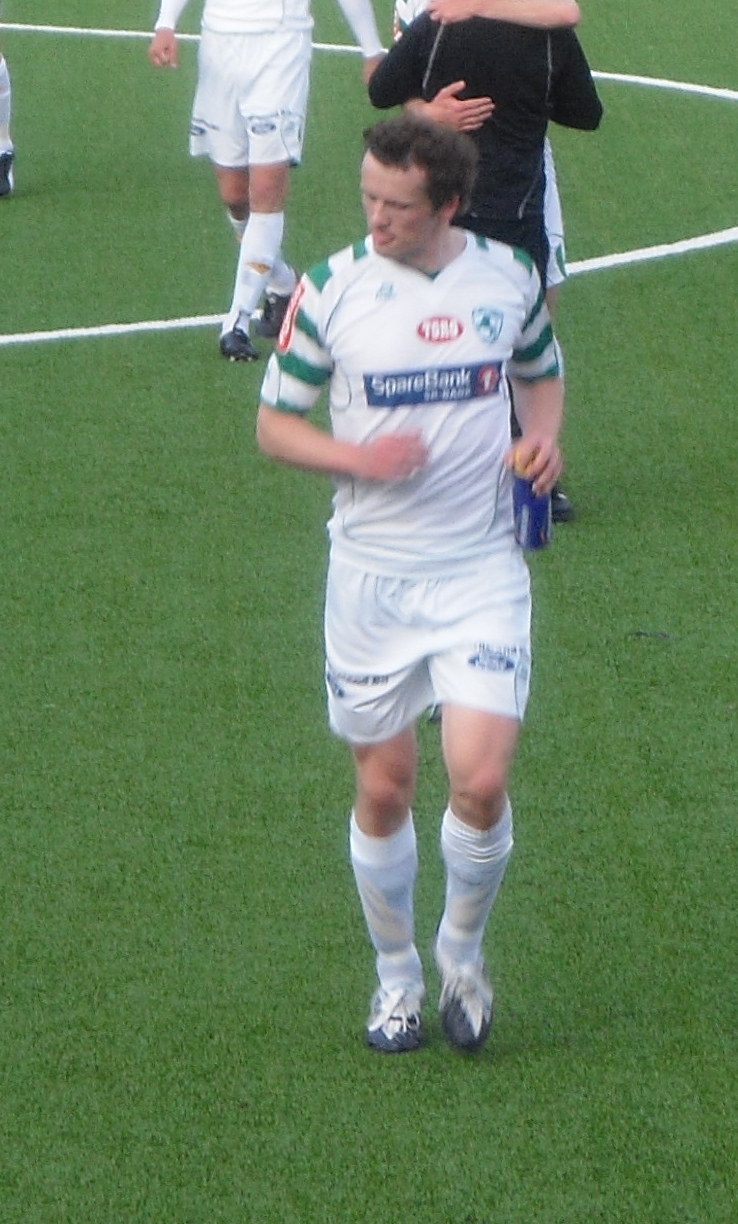 Norwegian footballer Ørjan Låstad